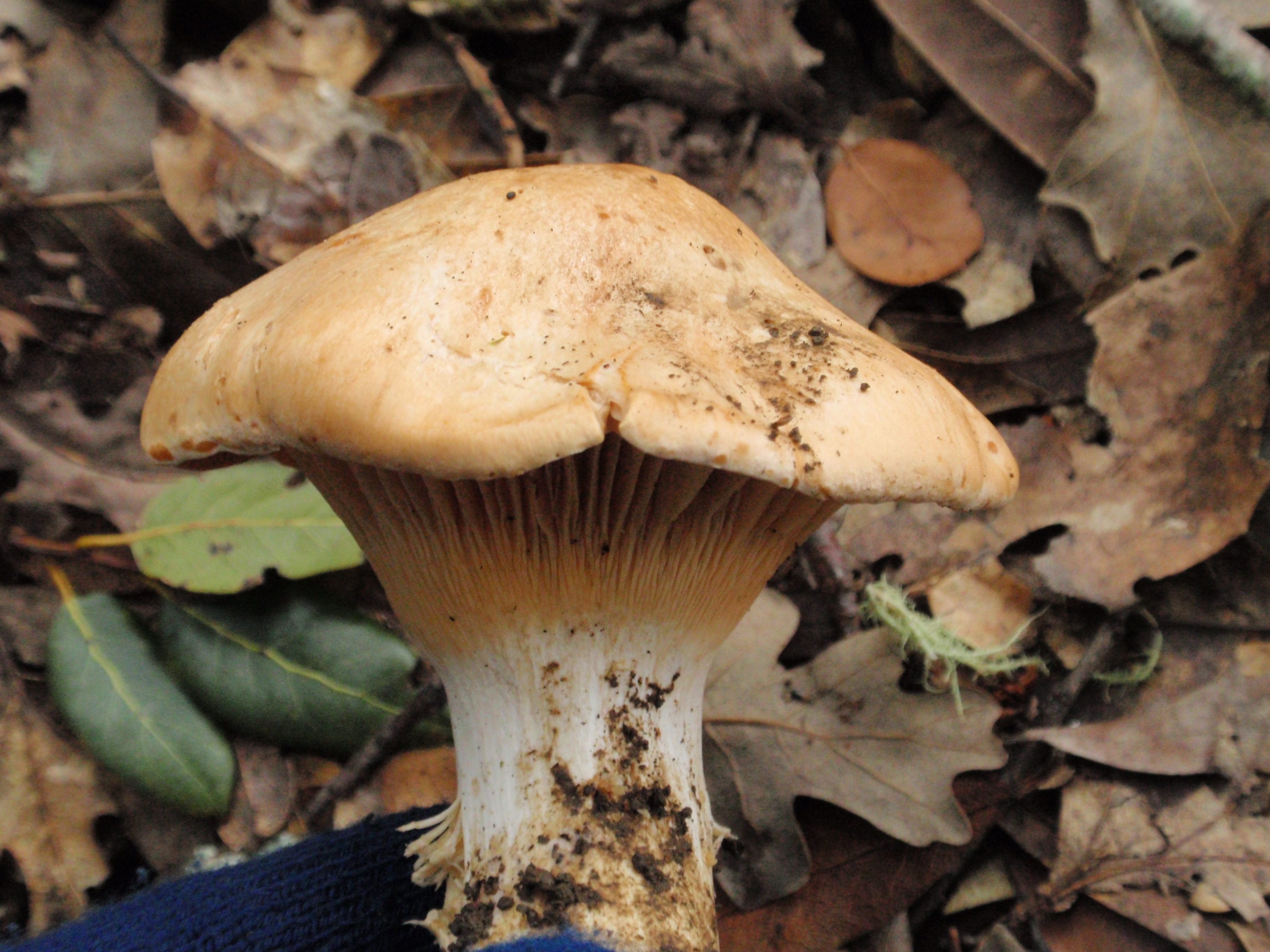 The mushroom Hygrocybe pratensis var. pratensis (Fr.) Murrill (syn. Camarophyllus pratensis (Fr.) P. Kumm.)